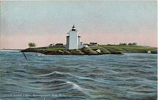 This is a postcard from 1910 of Dutch Island in Jamestown, Rhode Island, USA.